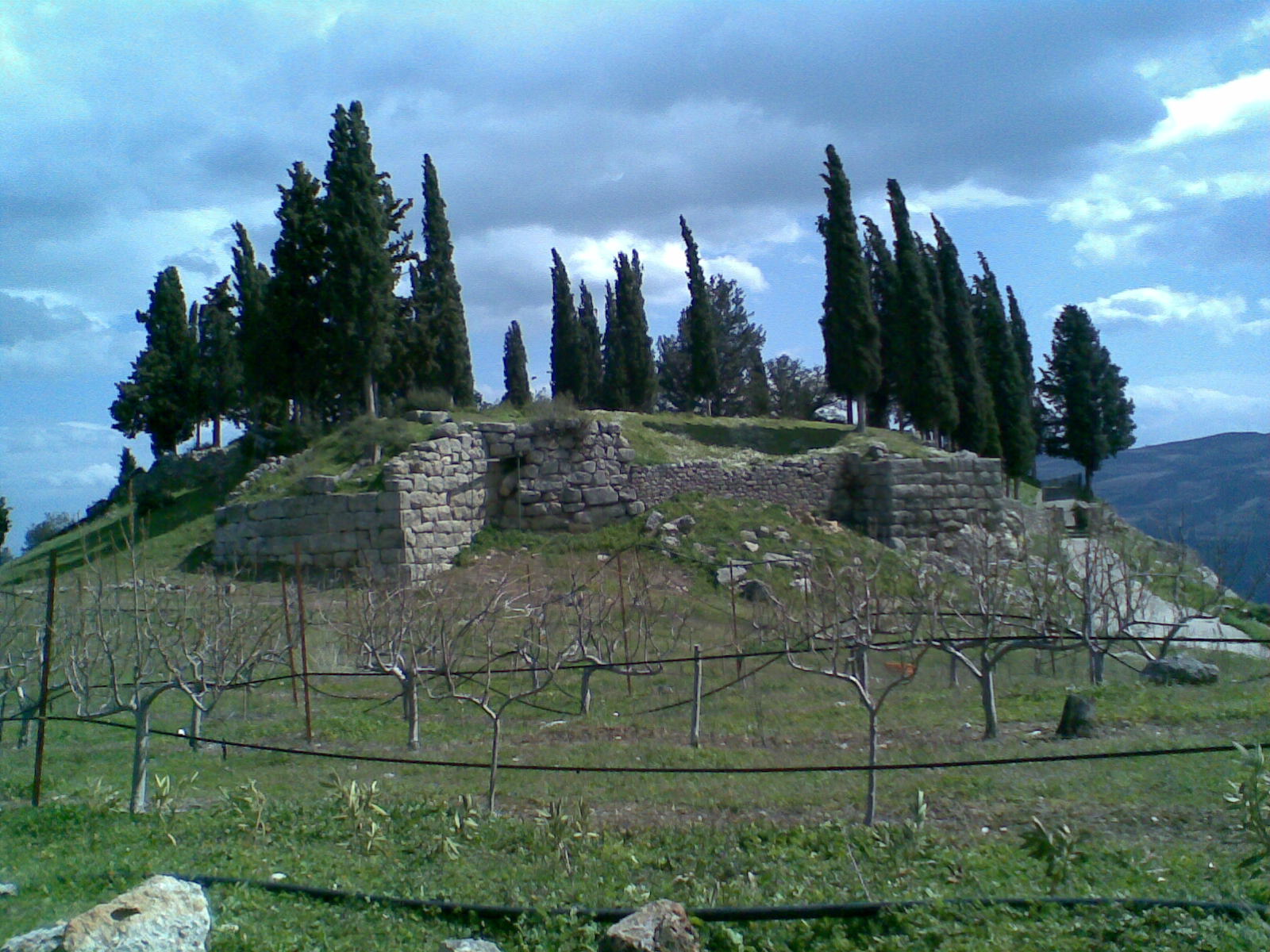 Titani Akropolis with Cypress trees on top